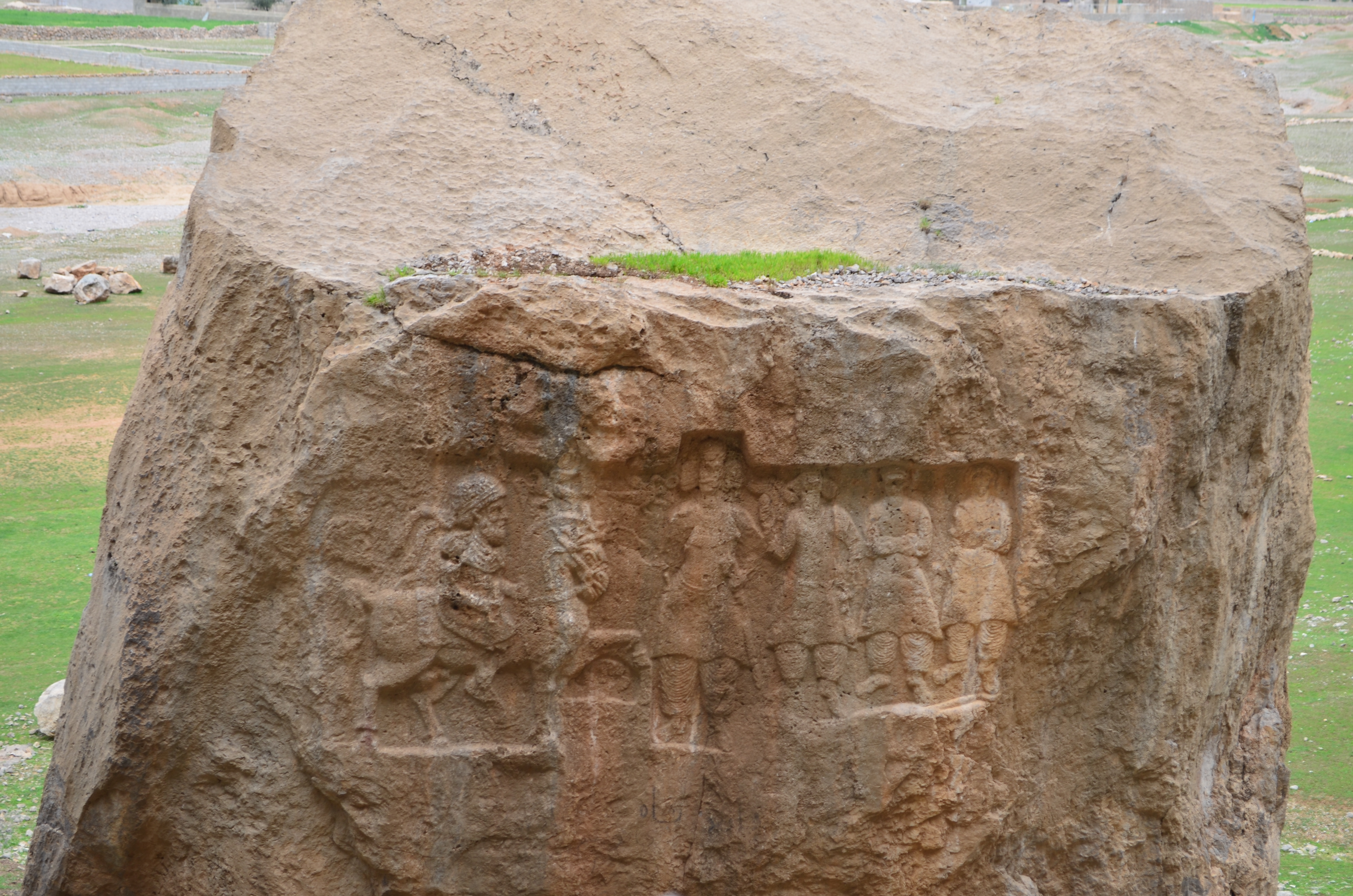 Khong Azhdar